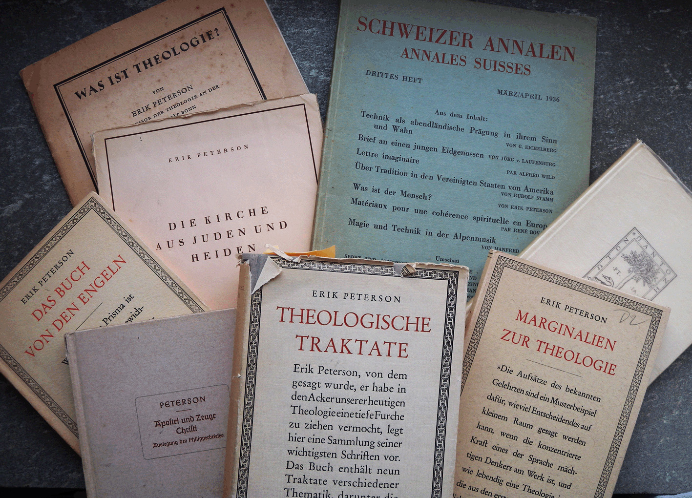 Books by Erik Peterson